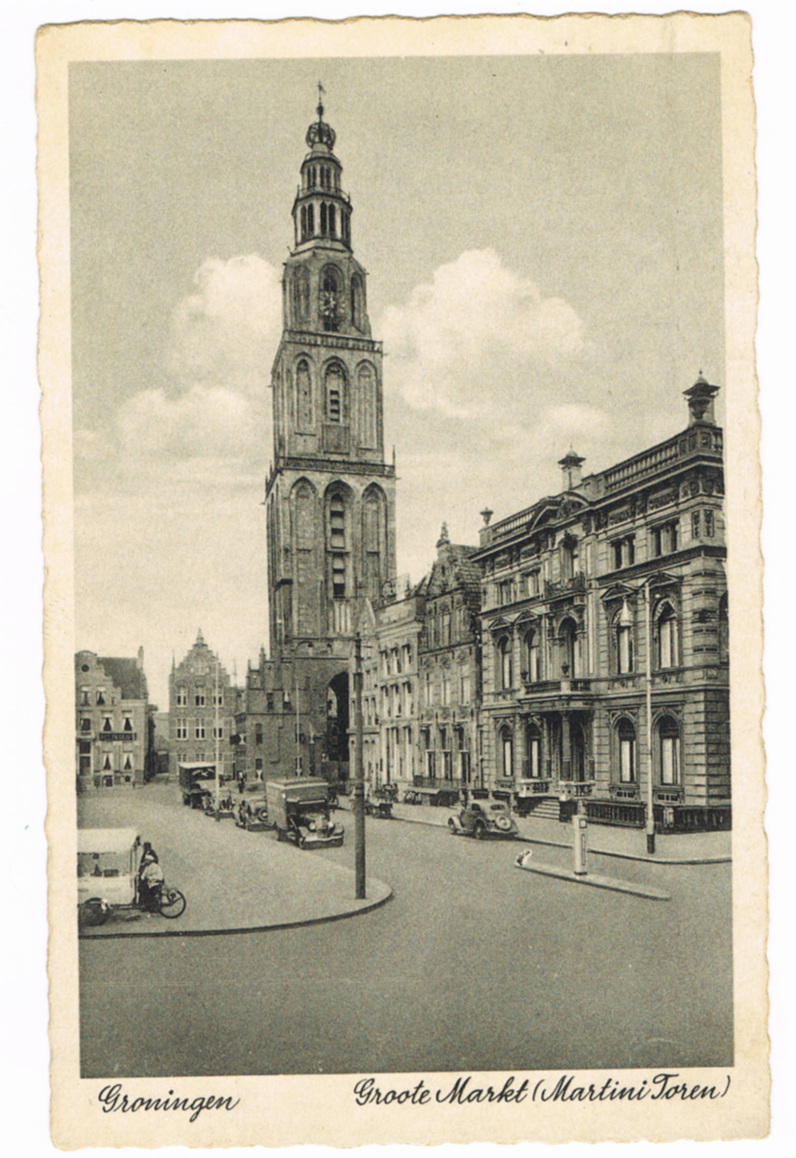 Scholtenshuis, Groningen. Jaren '30 van de 20e eeuw